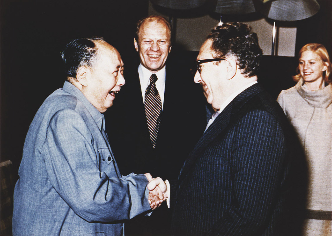 President Ford and daughter Susan watch as Secretary of State Henry Kissinger shakes hands with Mao Tse-Tung; Chairman of Chinese Communist Party, during a visit to the Chairman’s residence. ID #A7912.